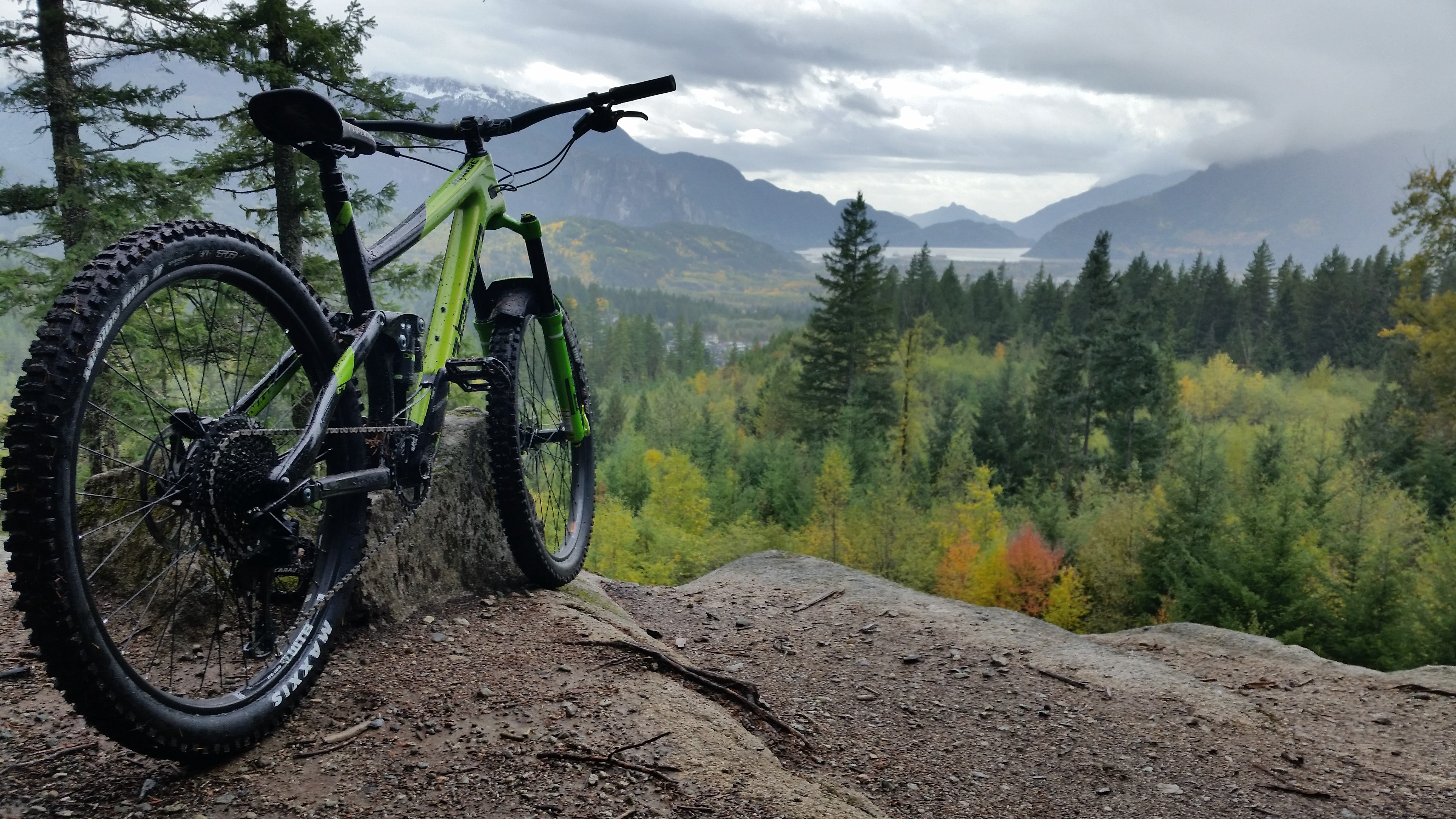 A full suspension mountain bike. Norco Range C3 above Squamish.